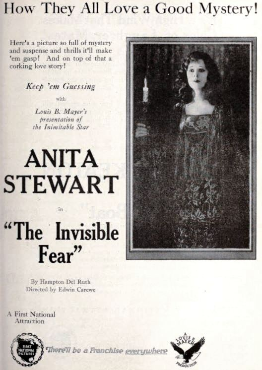 Advertisement for the American mystery film The Invisible Fear (1921) with Anita Stewart, on page 33 of the November 19, 1921 Exhibitors Herald.